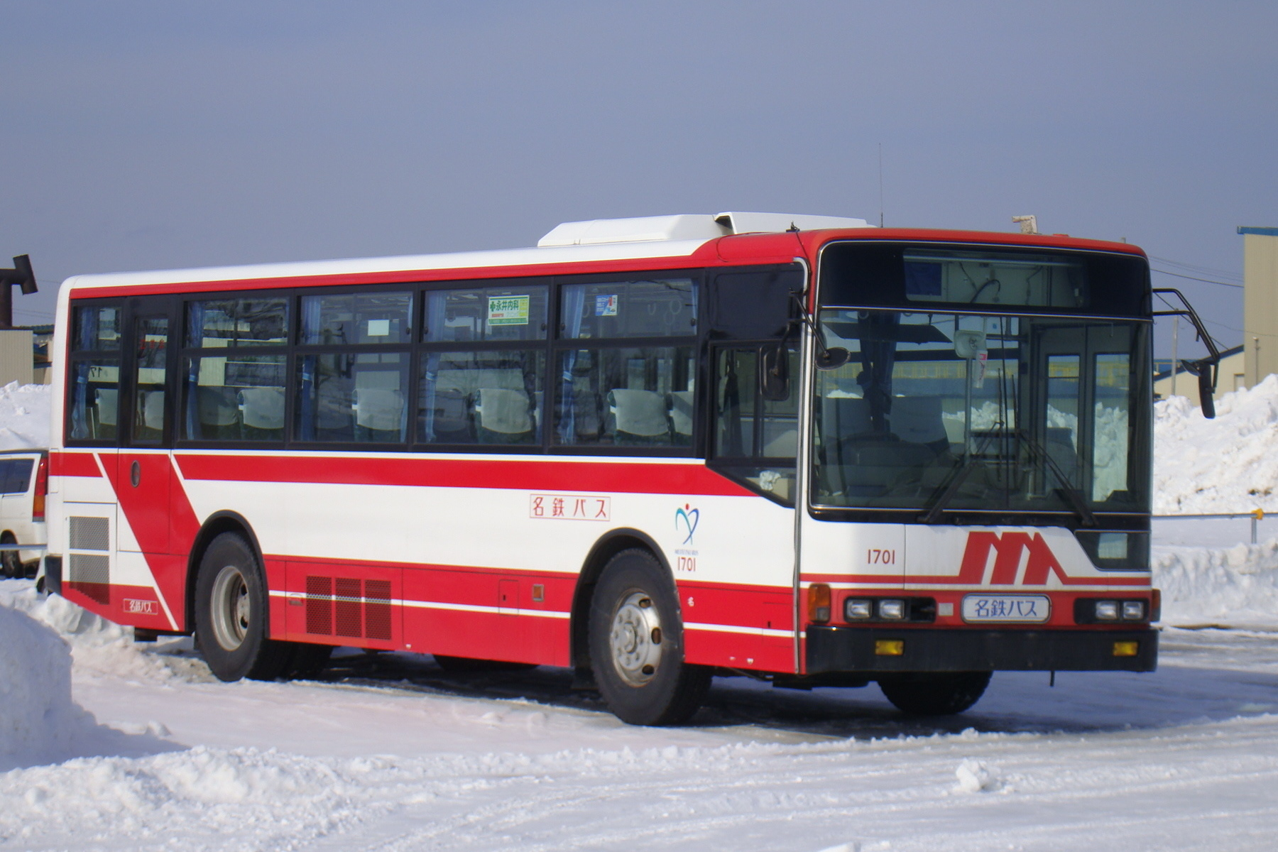 Transferred by Meitetsu Bus. Before remodeling for Abashiri Bus